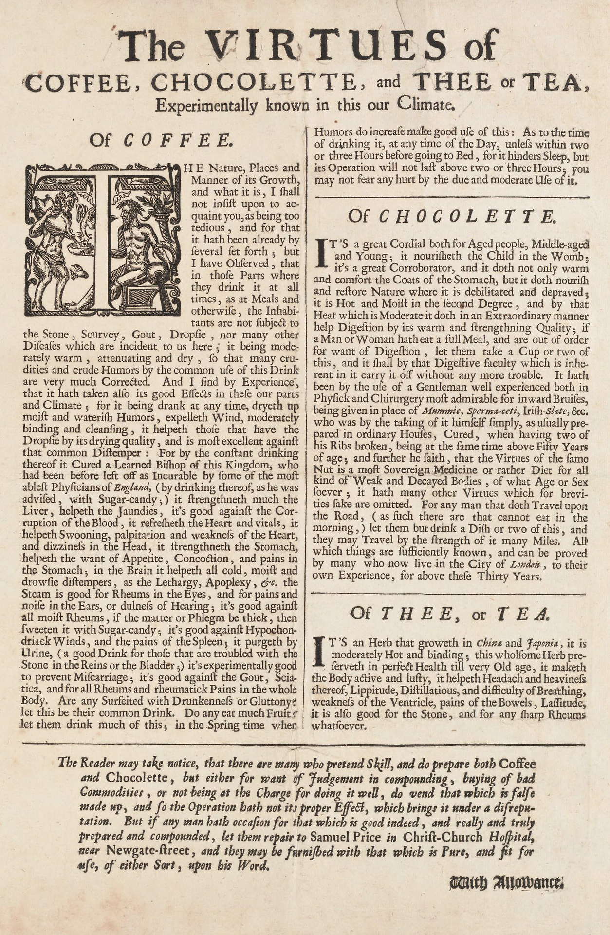 Broadside (39 x 30 cm), The virtues of coffee, chocolette, and thee or tea, experimentally known in this our climate, published in London, ca.1690. The article claims that coffee cures a number of health concerns, including "the Stone, Scurvey, Gout, Dropsie". EB65.A100.B675b v.2, Houghton Library, Harvard University